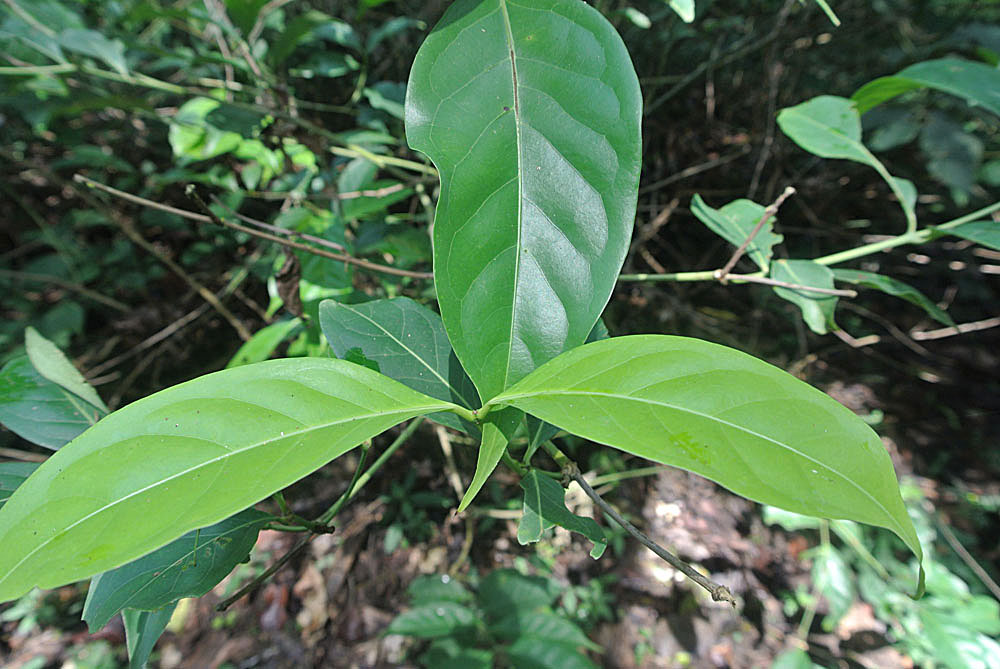 A vine known as Chalipanga, and here in Ecuador as Chacruna. It provides a hallucinogen which is part of the Ayahuasca concoction. Jatun Sacha gardens.